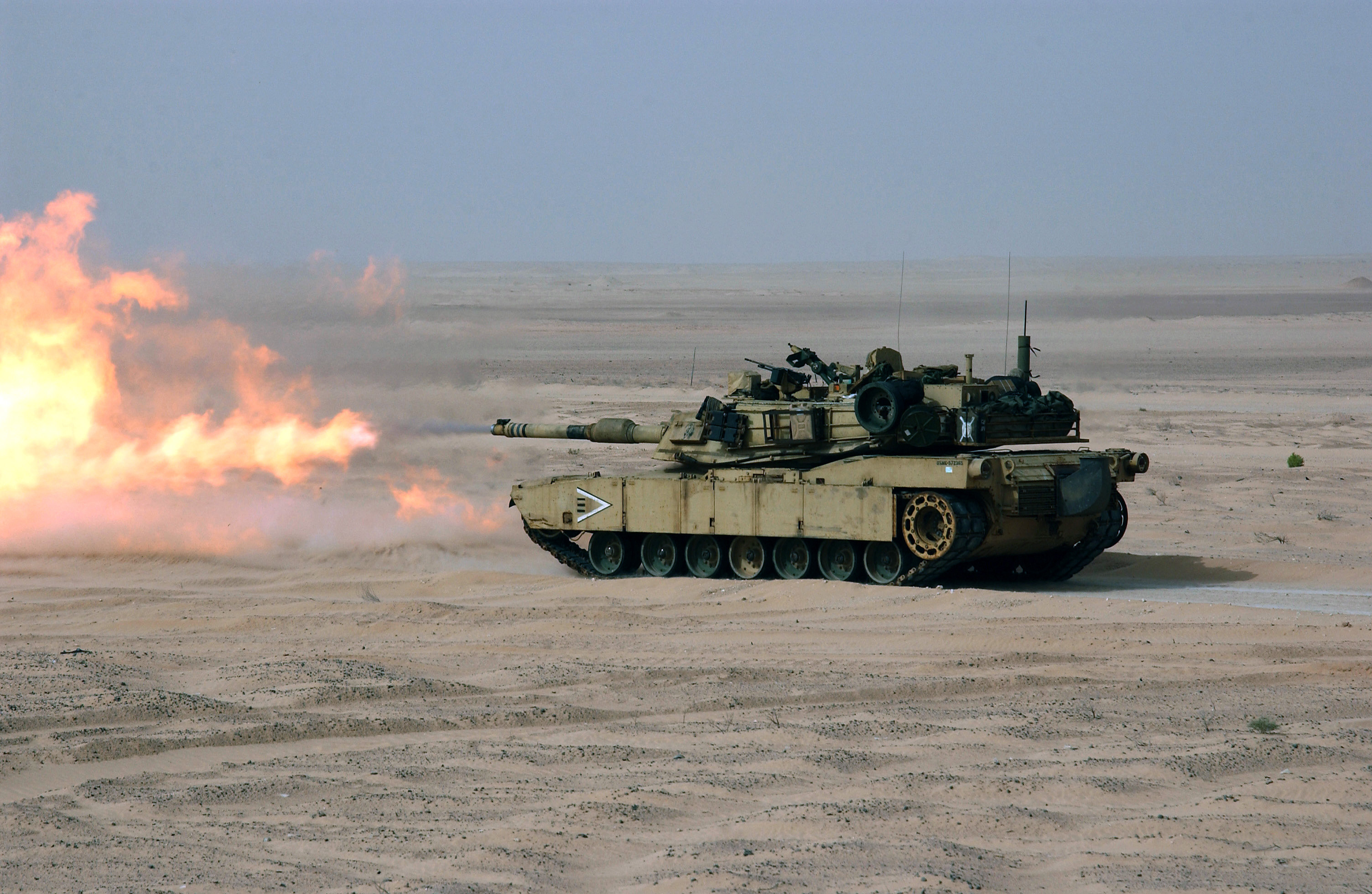 Marines from the 13th Marine Expeditionary Unit (13th MEU) Tank Platoon BLT 1/1 stationed at Twentynine Palms, Calif., fire the M1A1 Abrams tank during a live fire training exercise. 13th MEU is assigned to USS Peleliu (LHA 5) Expeditionary Strike Group One (ESG-1). An ESG constitutes a new naval strike force designed to equip amphibious forces with added firepower and operational capabilities. ESG-1 is currently deployed to the Commander, U.S. Fifth Fleet Area of Responsibility in support of Operations Enduring Freedom and Iraqi Freedom.